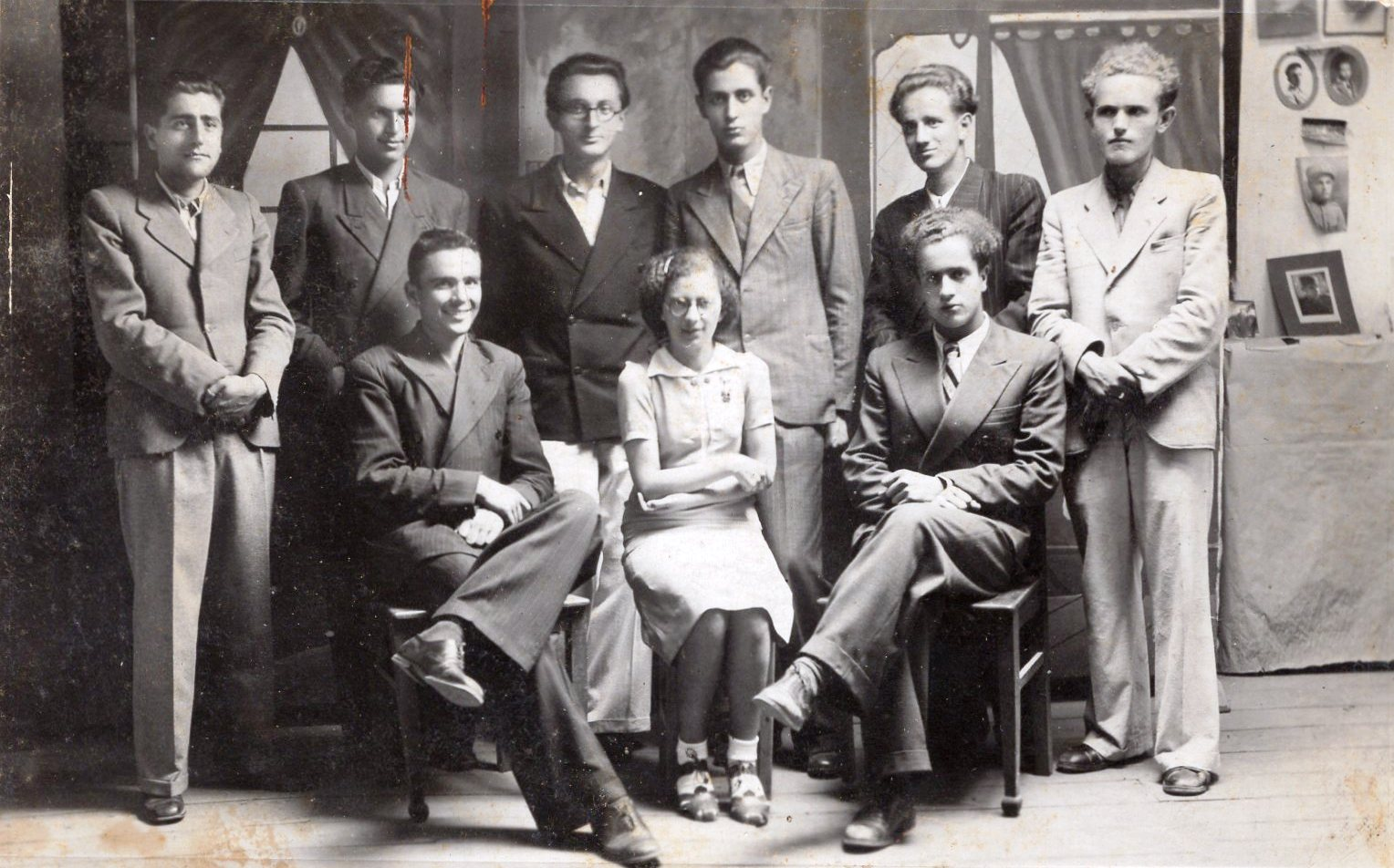 Youth group leaded by Borka Taleski (seated right), national hero in Macedonia. Photo taken in 1939, Bitola This media file is produced by Wikipedian in Residence in Category:Wikipedian in Residence at DARM in 2016.